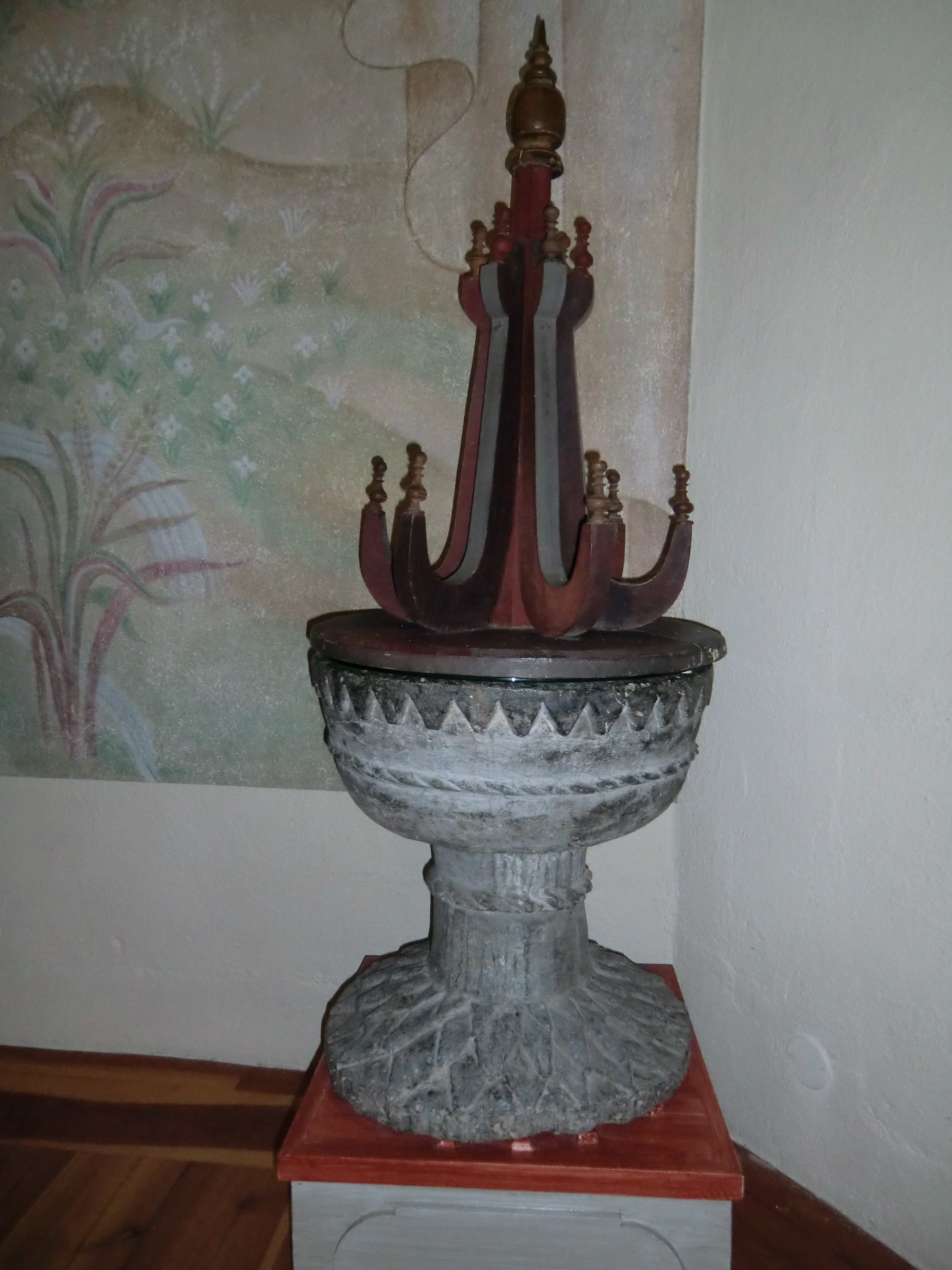 Baptismal font in Lysvik church, Värmland from around 1250.